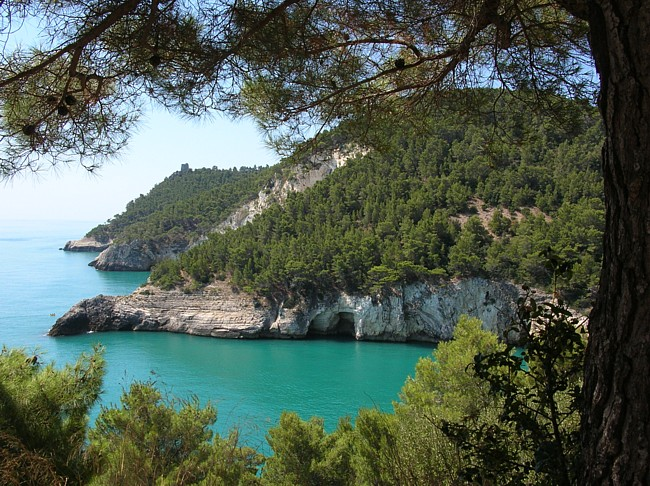 Gargano coast picture taken by user:Idéfix, july 2005